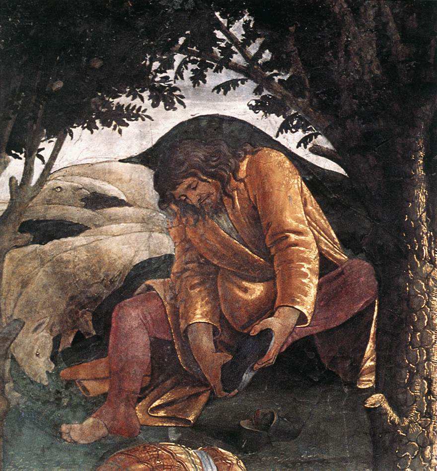 Botticelli, Scenes from the Life of Moses (detail 3)